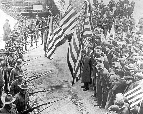 Massachusetts militiamen with fixed bayonets surround a parade of peaceful strikers. The Lawrence textile strike was a strike of immigrant workers in Lawrence, Massachusetts in 1912 led by the Industrial Workers of the World.